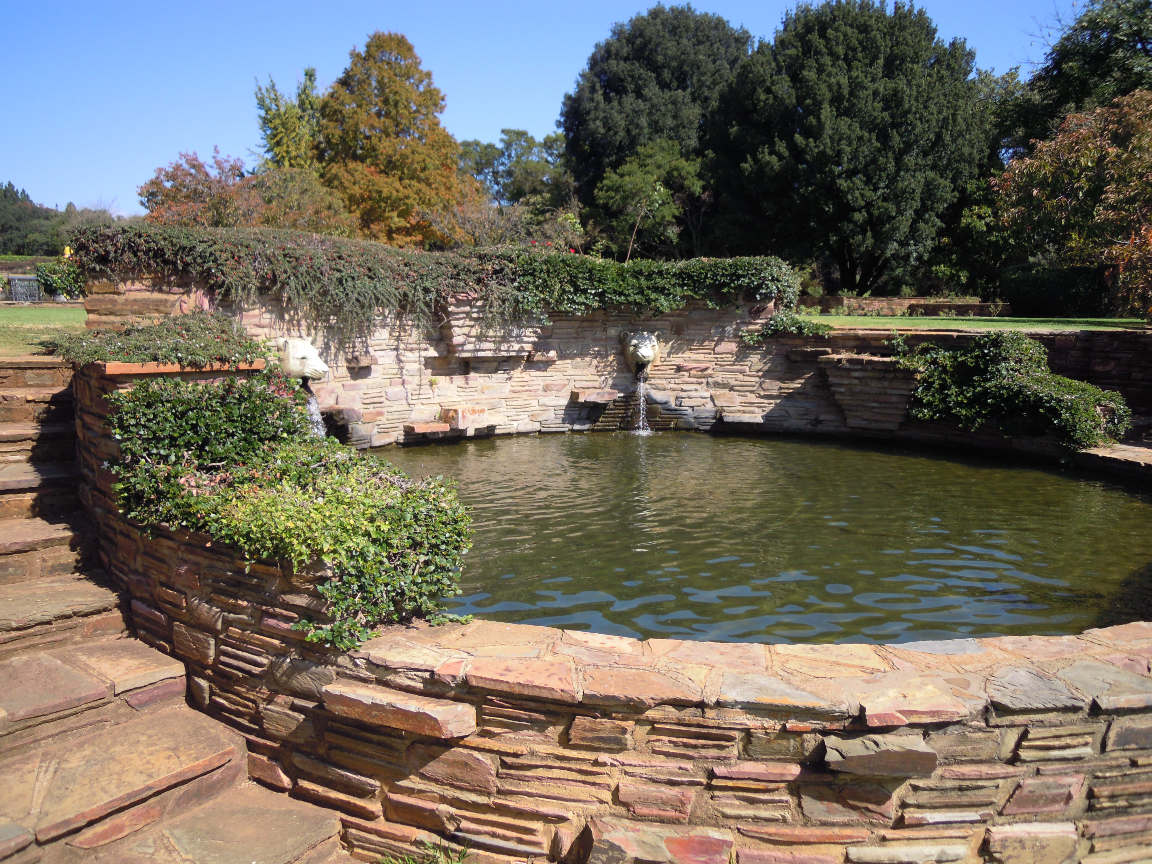 Pond and fountain in Rose Garden at Johannesburg Botanical Gardens